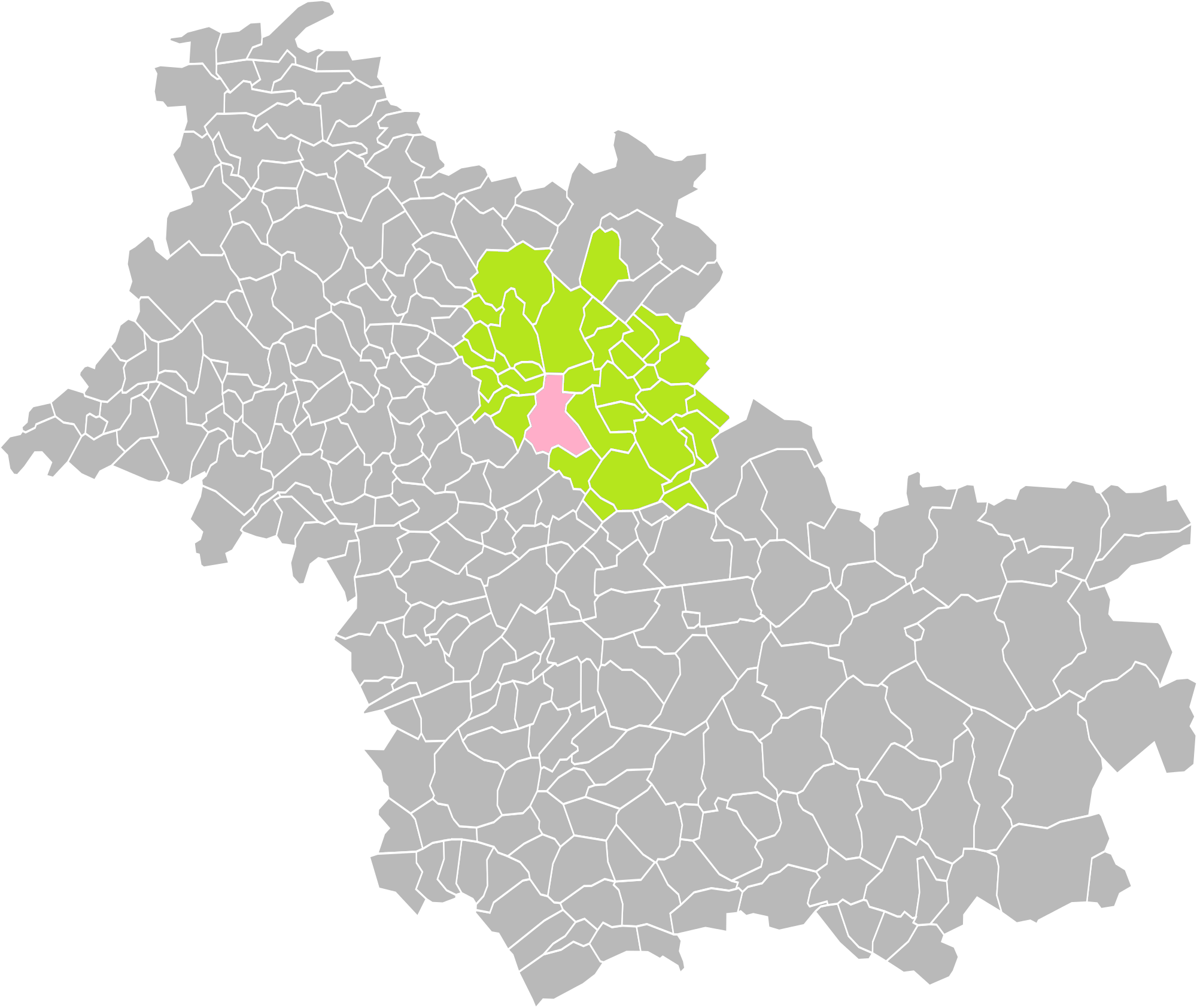 Location of the commune of Maves in the Communauté de communes de la Beauce-Val de Loire (Loir-et-Cher)